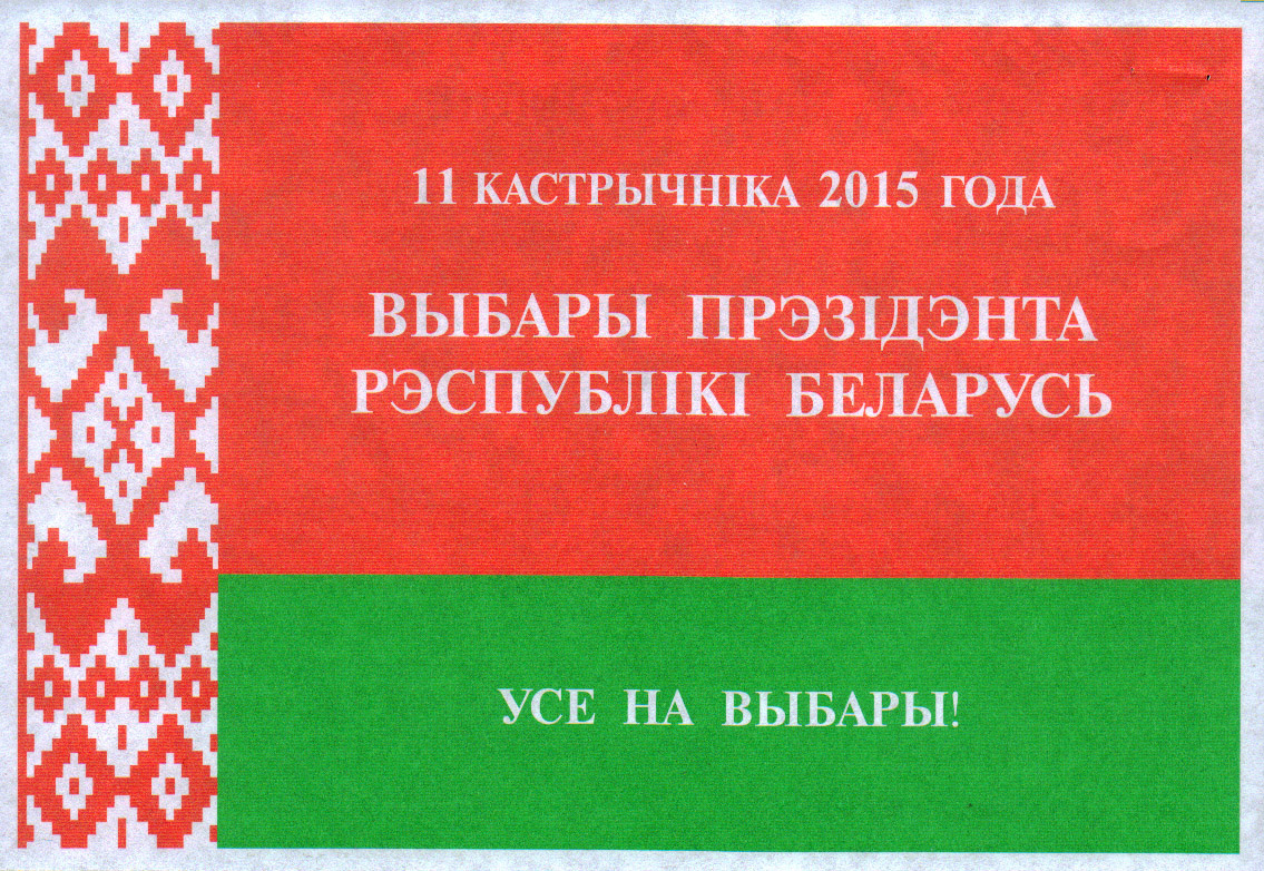 Official invitation to presidental elections in Belarus, 2015 (delivered by post), obverse. Translation from Belarusian: 11 October 2015 — Election of the president of the Republic of Belarus — Everyone come to the election!